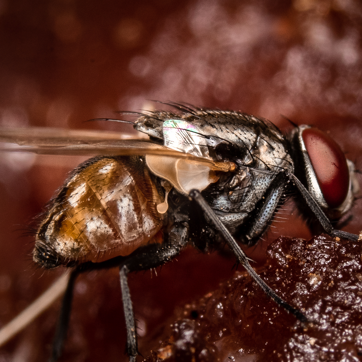 Musca (Latin for "the fly")